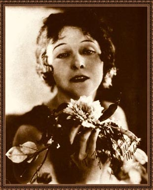 Publicity photo of Cleo Madison from The Blue Book of the Screen by Ruth Wing, editor